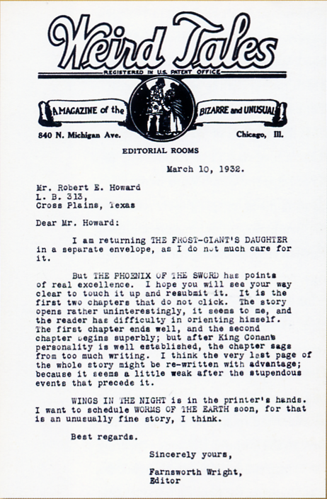 Letter from Farnsworth Wright, editor of Weird Tales, to Robert E. Howard, rejecting the first three Conan the Barbarian stories, although suggesting a re-write for one of them.